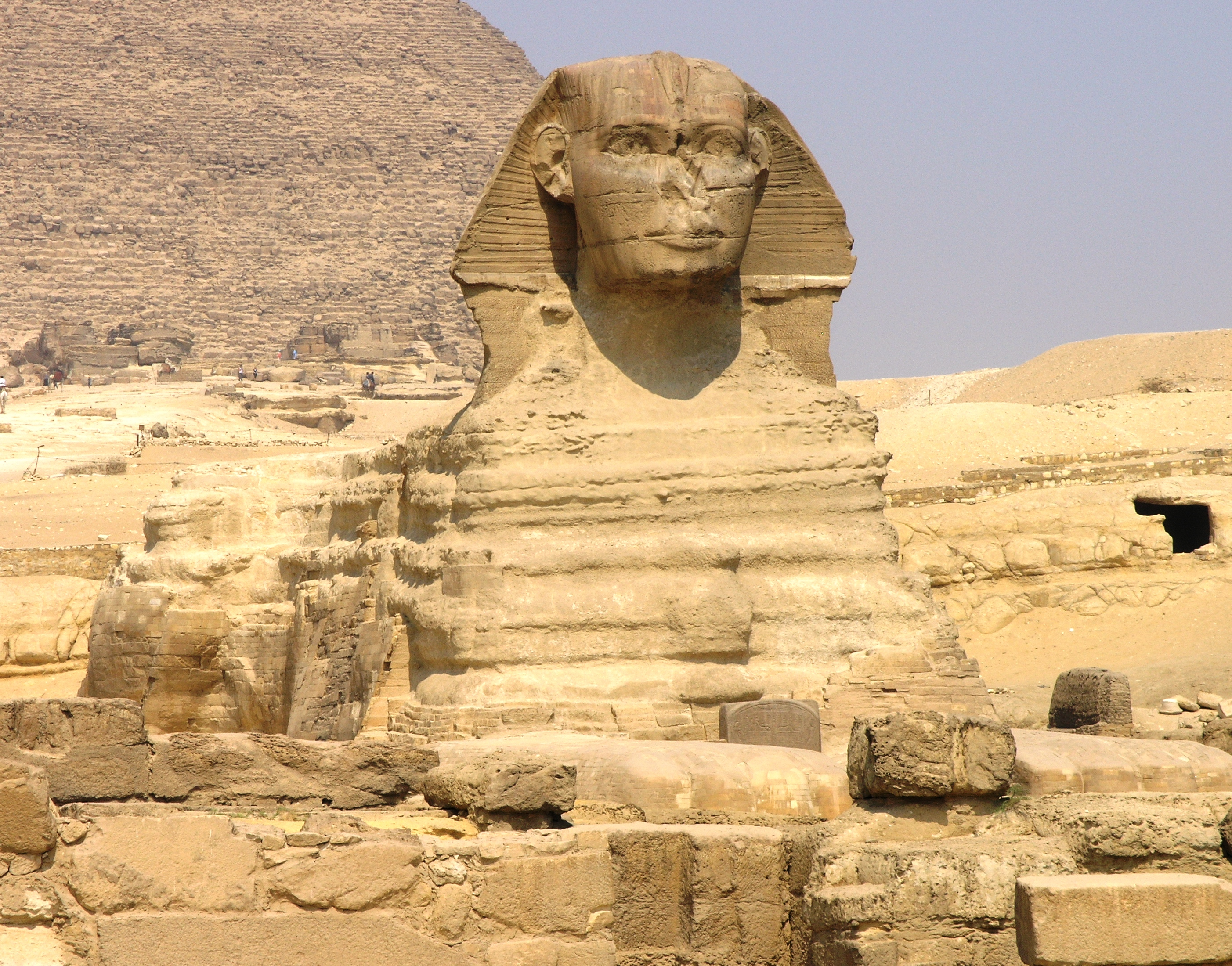 Giza Plateau - Great Sphinx - front view